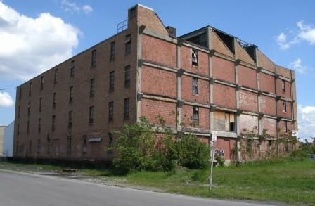 C.G. Meaker Food Company Warehouse building, at 538 Erie Blvd. West, in Syracuse, New York. West and north sides of building. Recently listed on the U.S. National Register of Historic Places.